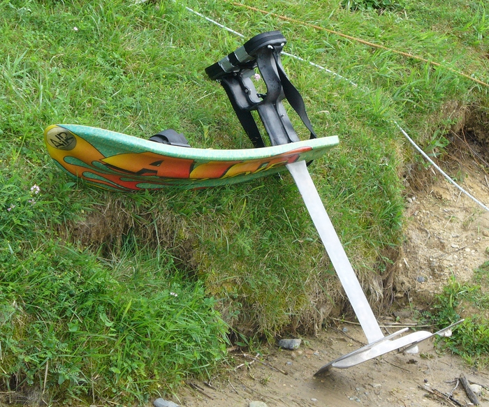 An Air Chair, a brand name of sit-down hydrofoil